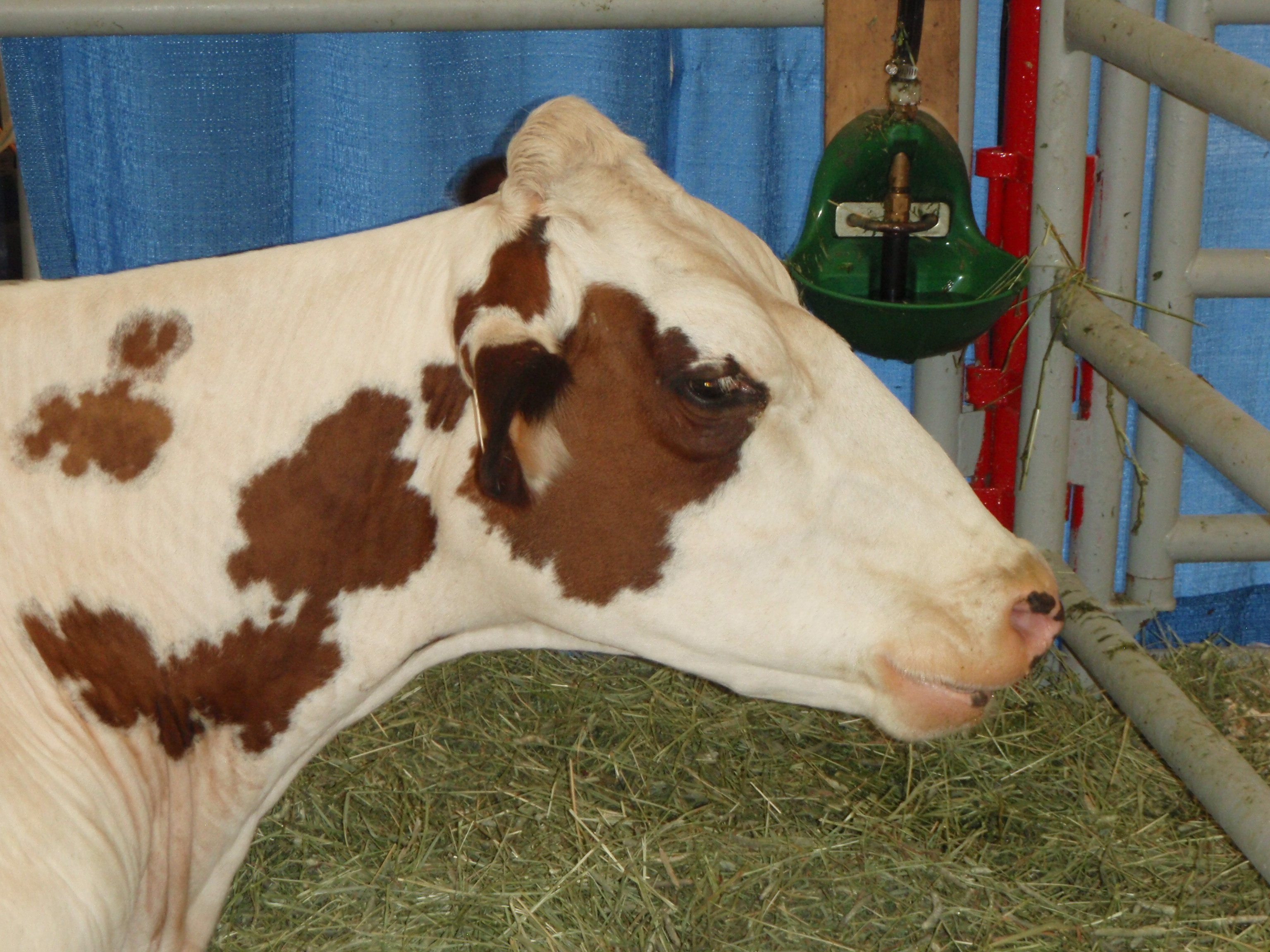 An Ayrshire cow (livestock exhibit) at the Calgary Stampede.